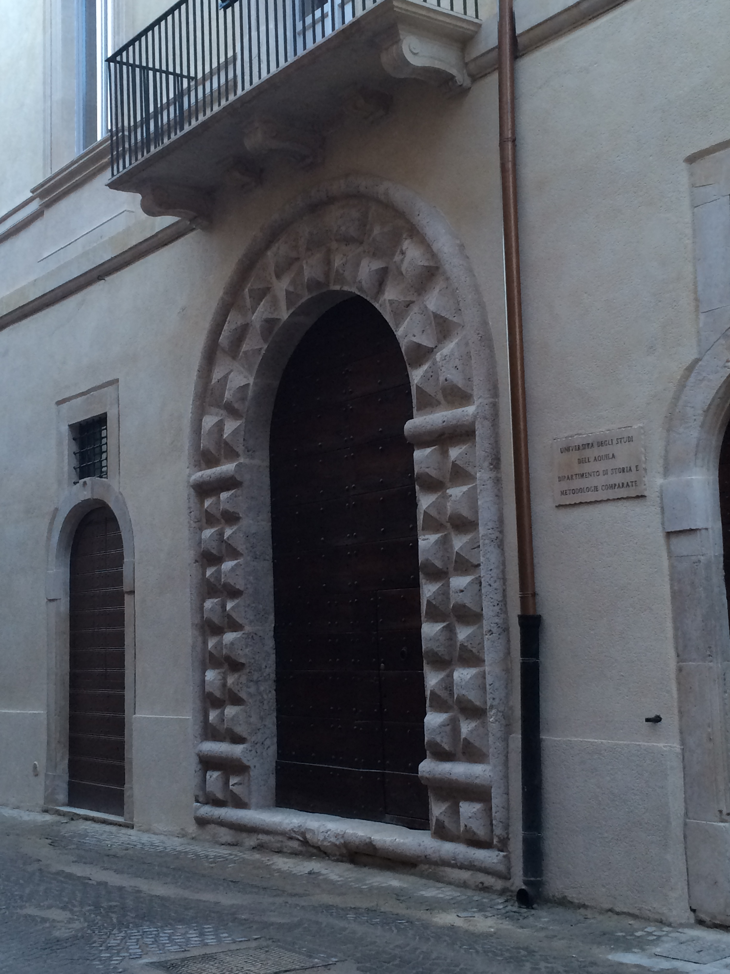 Palazzo Porcinari in L'Aquila